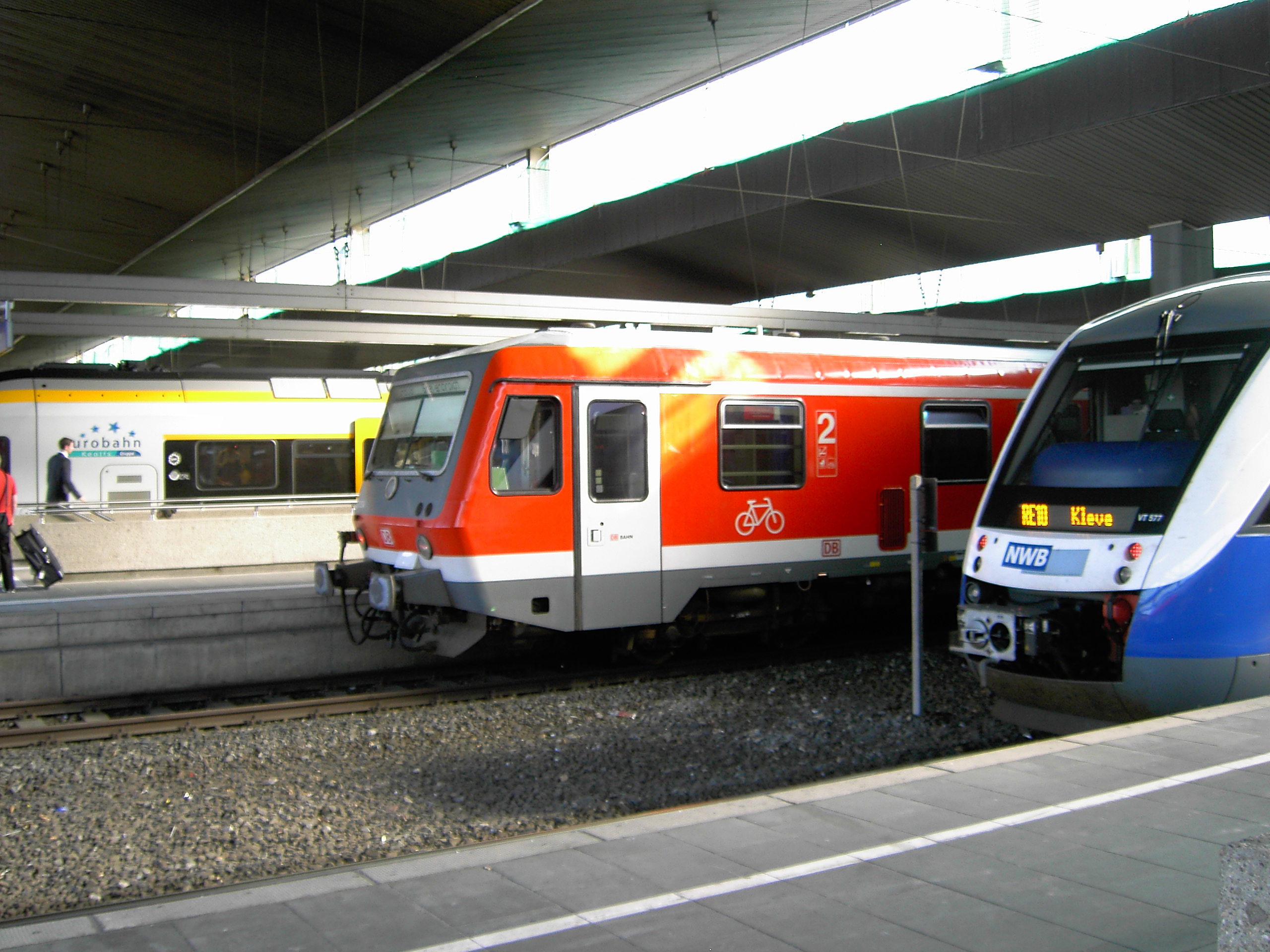 The photo shows three railcars of various rail companies (german 'Eurobahn', german 'Deutsche Bahn', german 'NordWestBahn') at Düsseldorf central station.